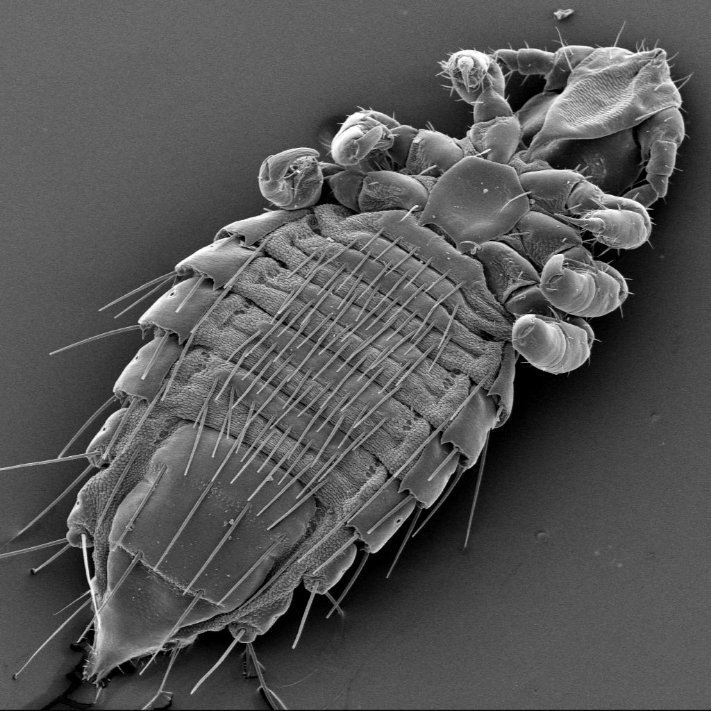 Neohaematopinus sciuri, male, ventral view, 100x